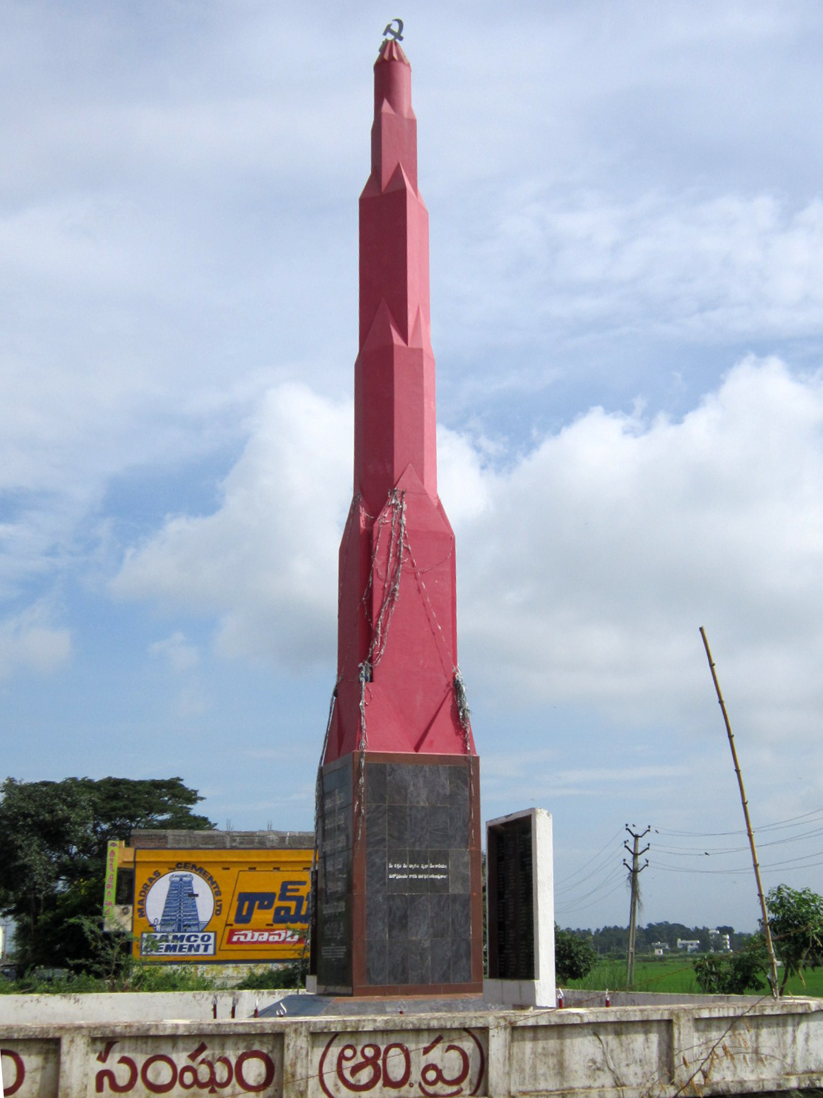 naxals memarial statue near kotta road